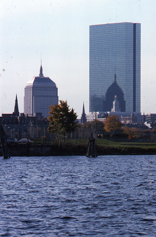 Title: Old John Hancock Building (Berkeley Building) and John Hancock Tower from Charles River Creator: Peter H. Dreyer Date: 1976 May Source: Collection 9800.007, Peter H. Dreyer slide collection File name: 9800007_319 Photographer: Peter H. Dreyer Rights: Public Domain, Please credit Peter H. Dreyer Citation: Peter H. Dreyer slide collection, Collection #9800.007, City of Boston Archives, Boston